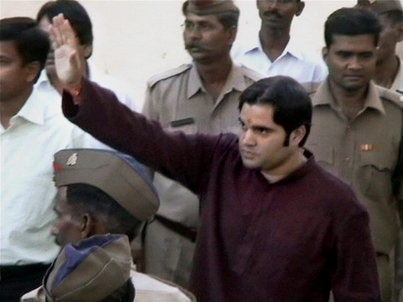 Feroze Varun Gandhi